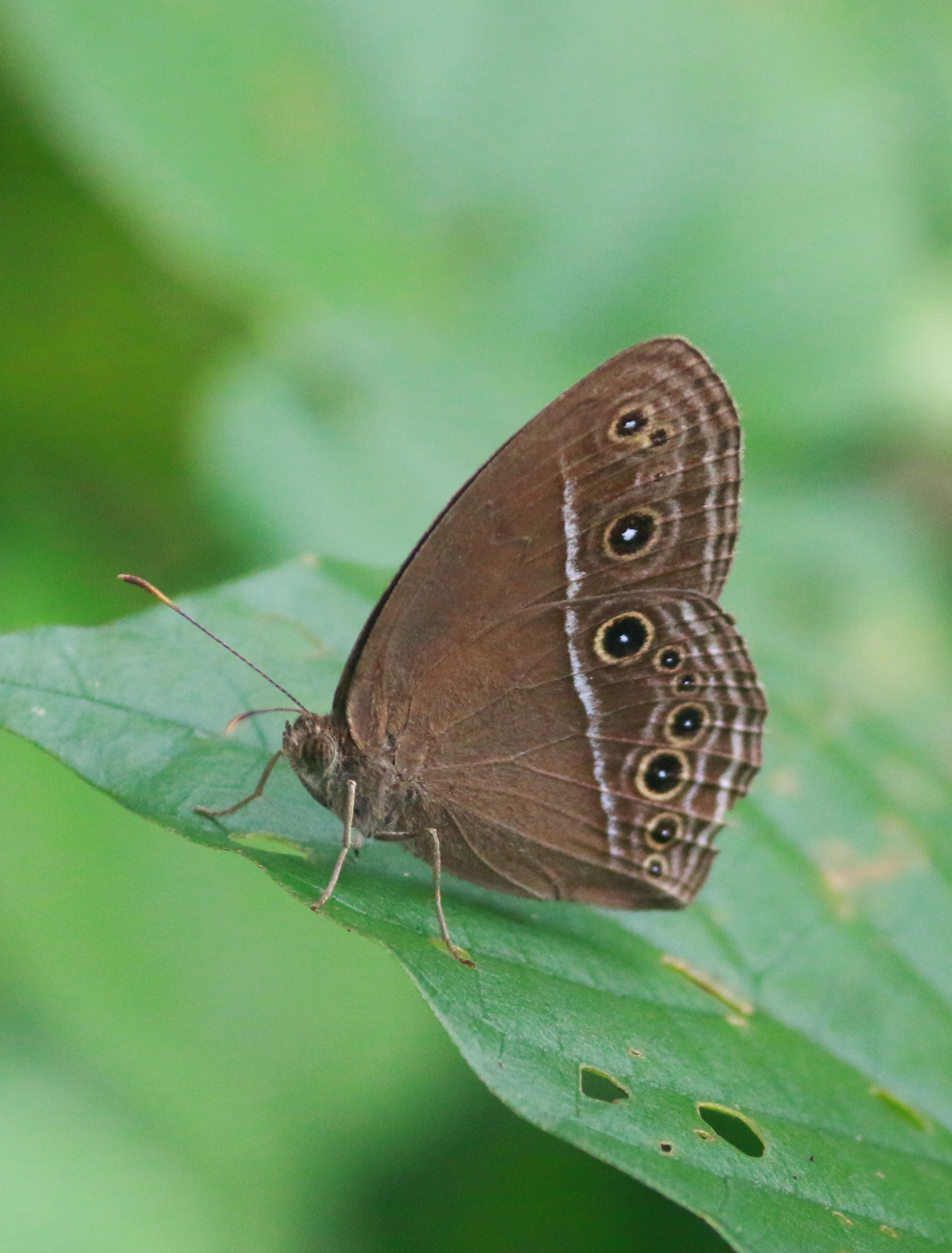 common bushbrown butterfly